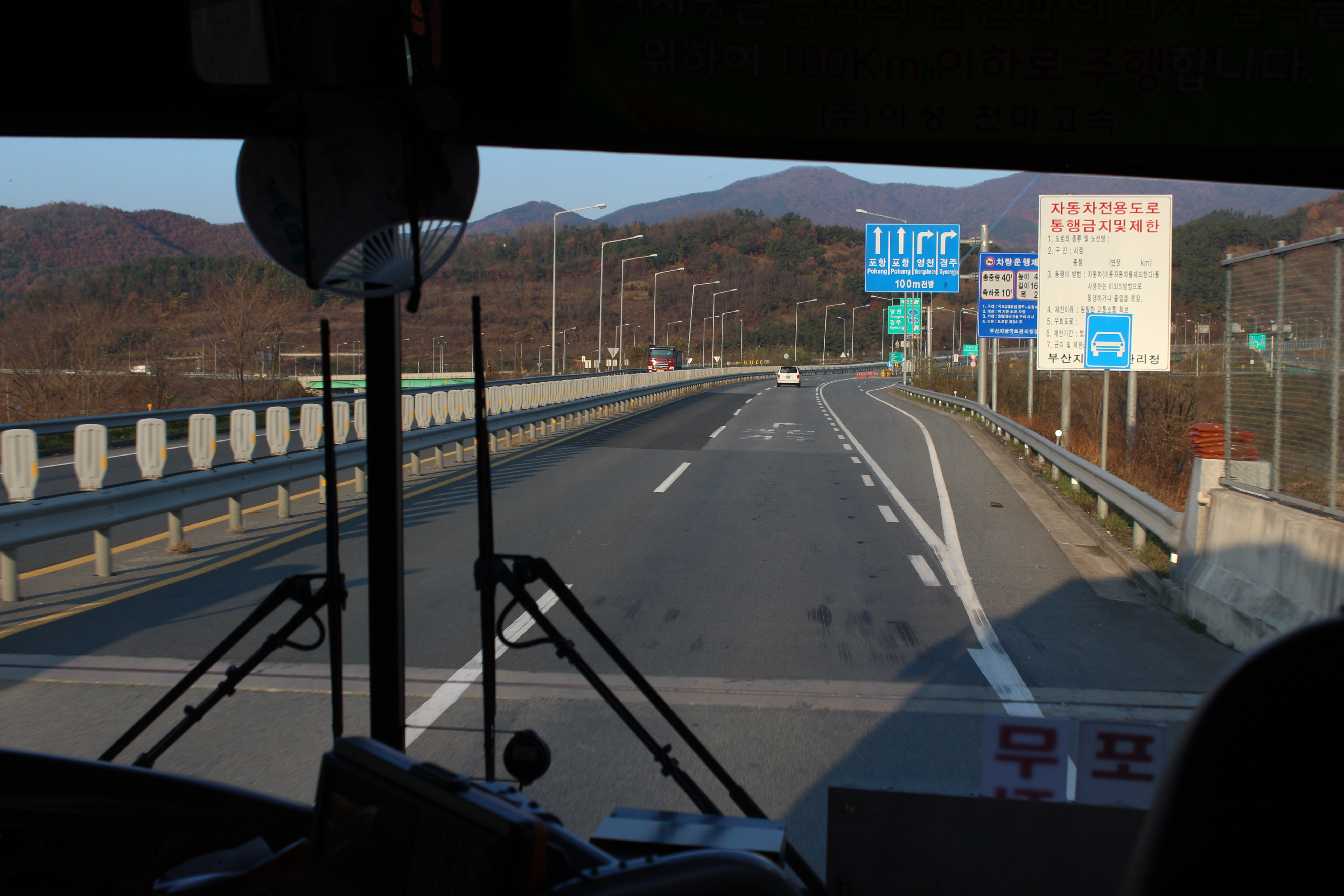 N. Geoncheon IC at Geonpo Saneup-ro Rd., Gyeongju, South Korea (National Road 20th)